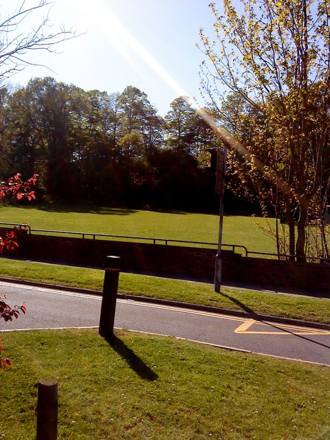 Playing Field, Robin Hood Primary School, Kingston Vale Robin Hood Primary School opened in 1950 as part of the post-war completion of the southern part of the Robin Hood Estate.